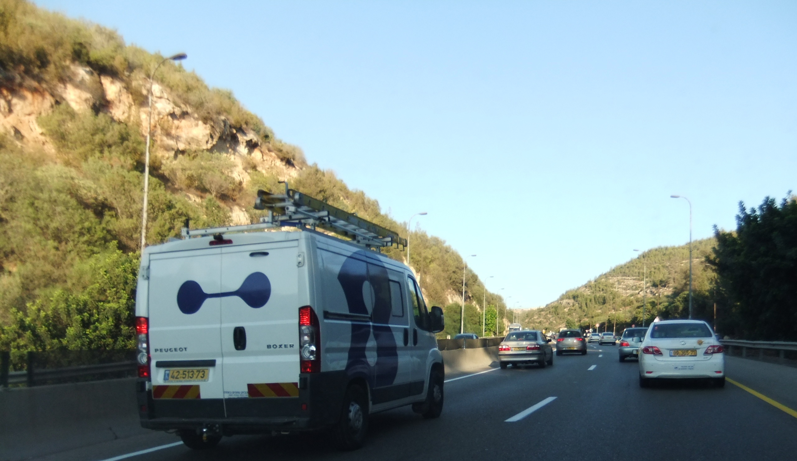 A vehicle of Bezeq on route A1 from Tel Aviv to Jerusalem